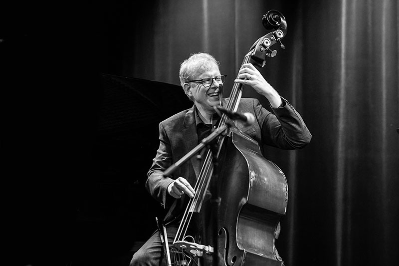 Hans Backenroth in Aarhus, Denmark 2018